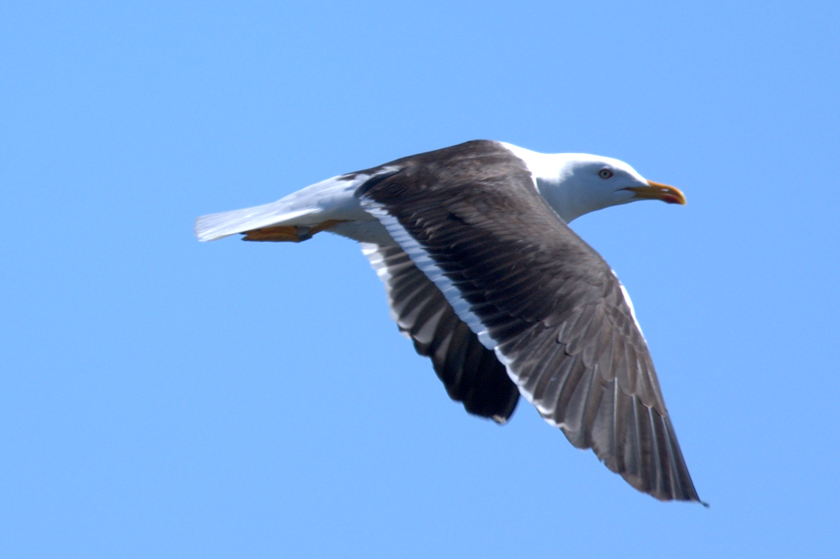 Lesser Black-backed Gull Larus fuscus, Pälkäne, Luopioinen, Finland